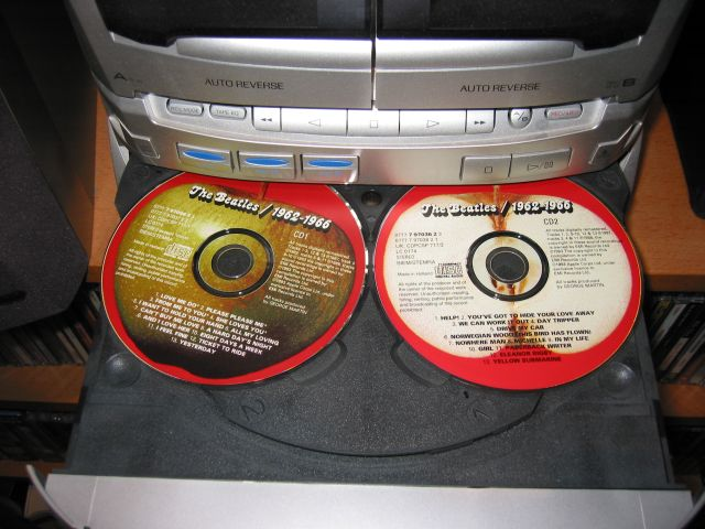 Compact Disc player carousel for three CDs.